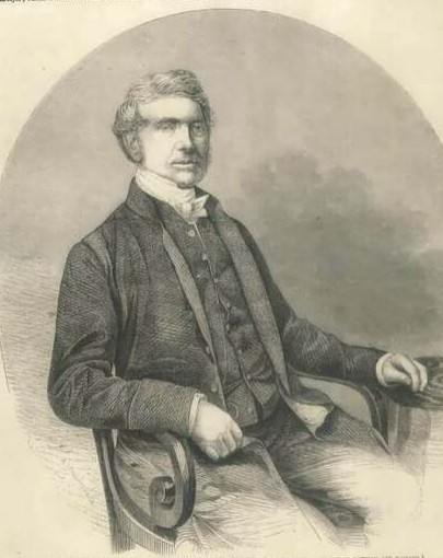 Portrait of Robert Mosley Master (1794–1867), English Anglican priest.